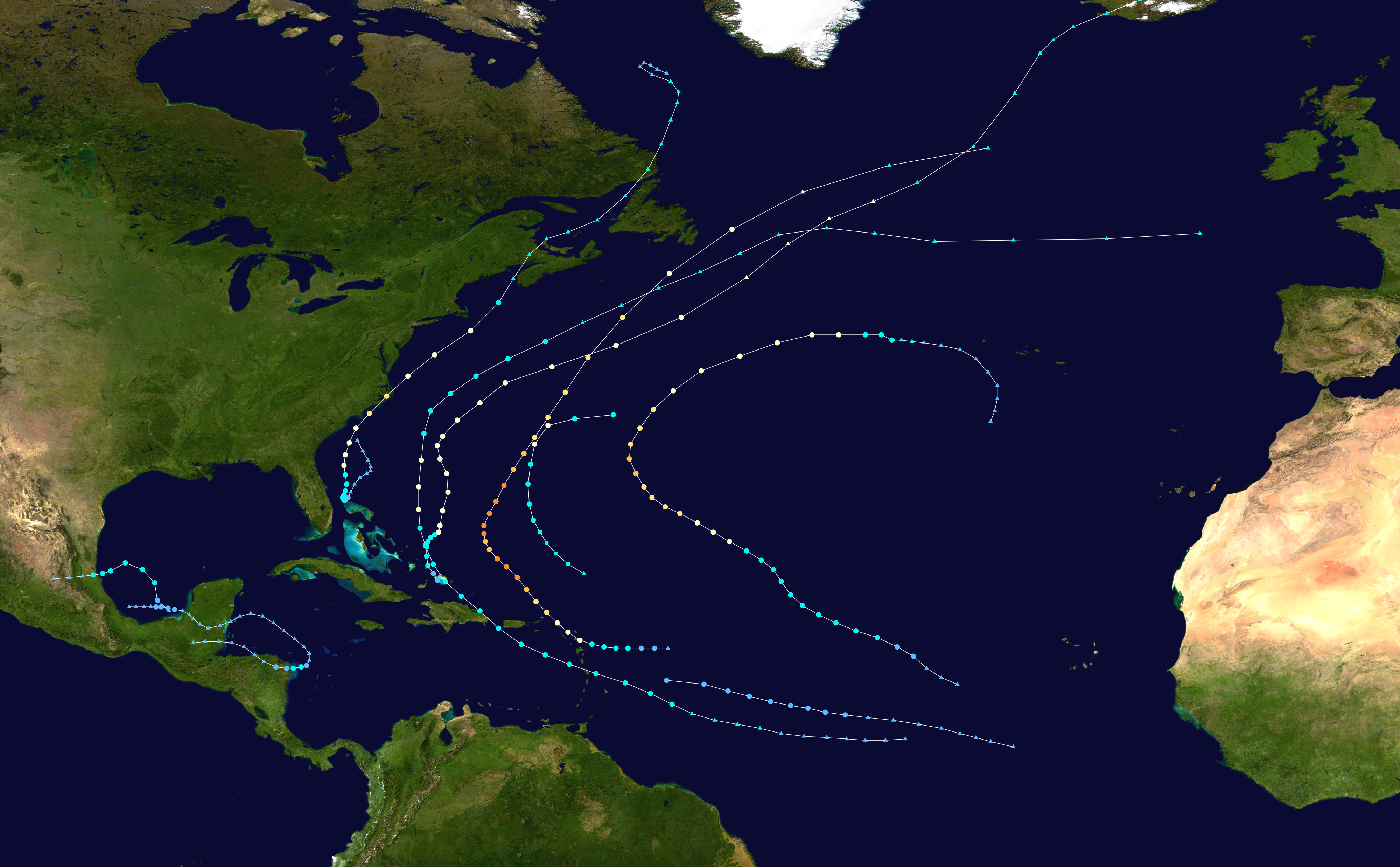 This map shows the tracks of all tropical cyclones in the 2014 Atlantic hurricane season. The points show the location of each storm at 6-hour intervals. The colour represents the storm's maximum sustained wind speeds as classified in the Saffir-Simpson Hurricane Scale (see below), and the shape of the data points represent the type of the storm. Saffir–Simpson scale Tropical depression≤38 mph≤62 km/h Category 3111–129 mph178–208 km/h Tropical storm39–73 mph63–118 km/h Category 4130–156 mph209–251 km/h Category 174–95 mph119–153 km/h Category 5≥157 mph≥252 km/h Category 296–110 mph154–177 km/h Unknown Storm type Tropical cyclone Subtropical cyclone Extratropical cyclone / Remnant low / Tropical disturbance / Monsoon depression